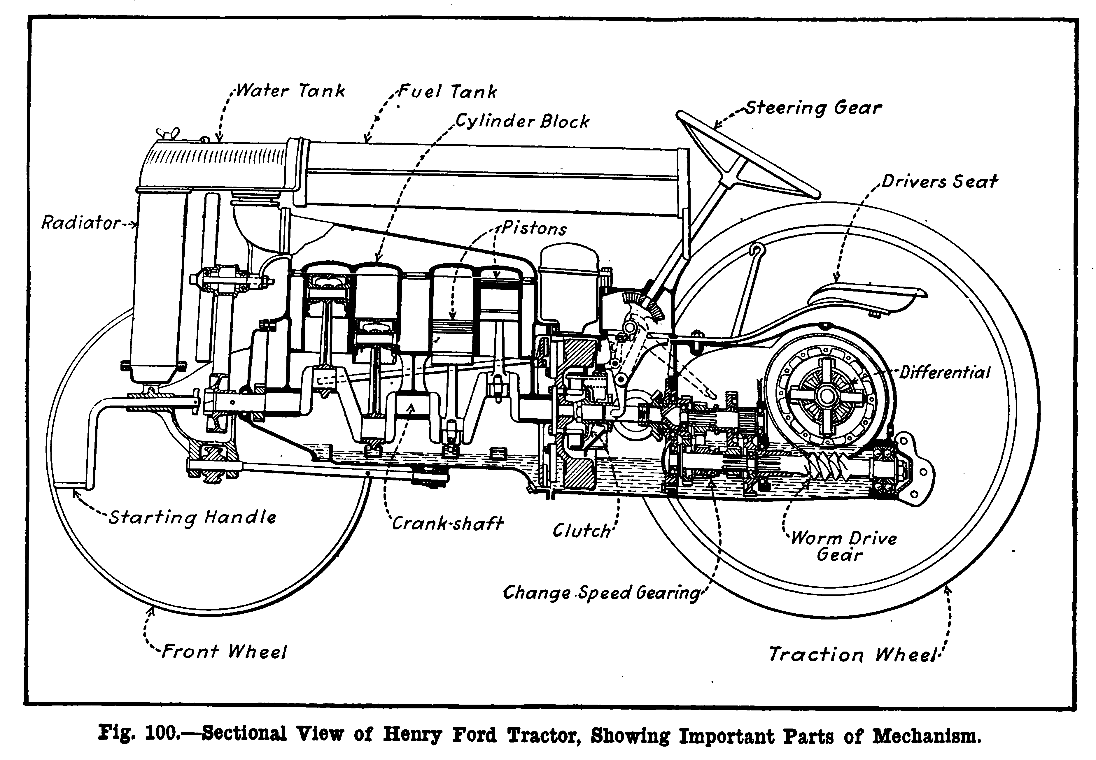 A cutaway view of the original Fordson tractor model. The name "Fordson" was not yet widely used in 1916 to 1918. Terms such as "the [real/genuine] Ford tractor" or "the Henry Ford tractor" were used until the telegraph address "Fordson" was adopted as the brand name in 1918.